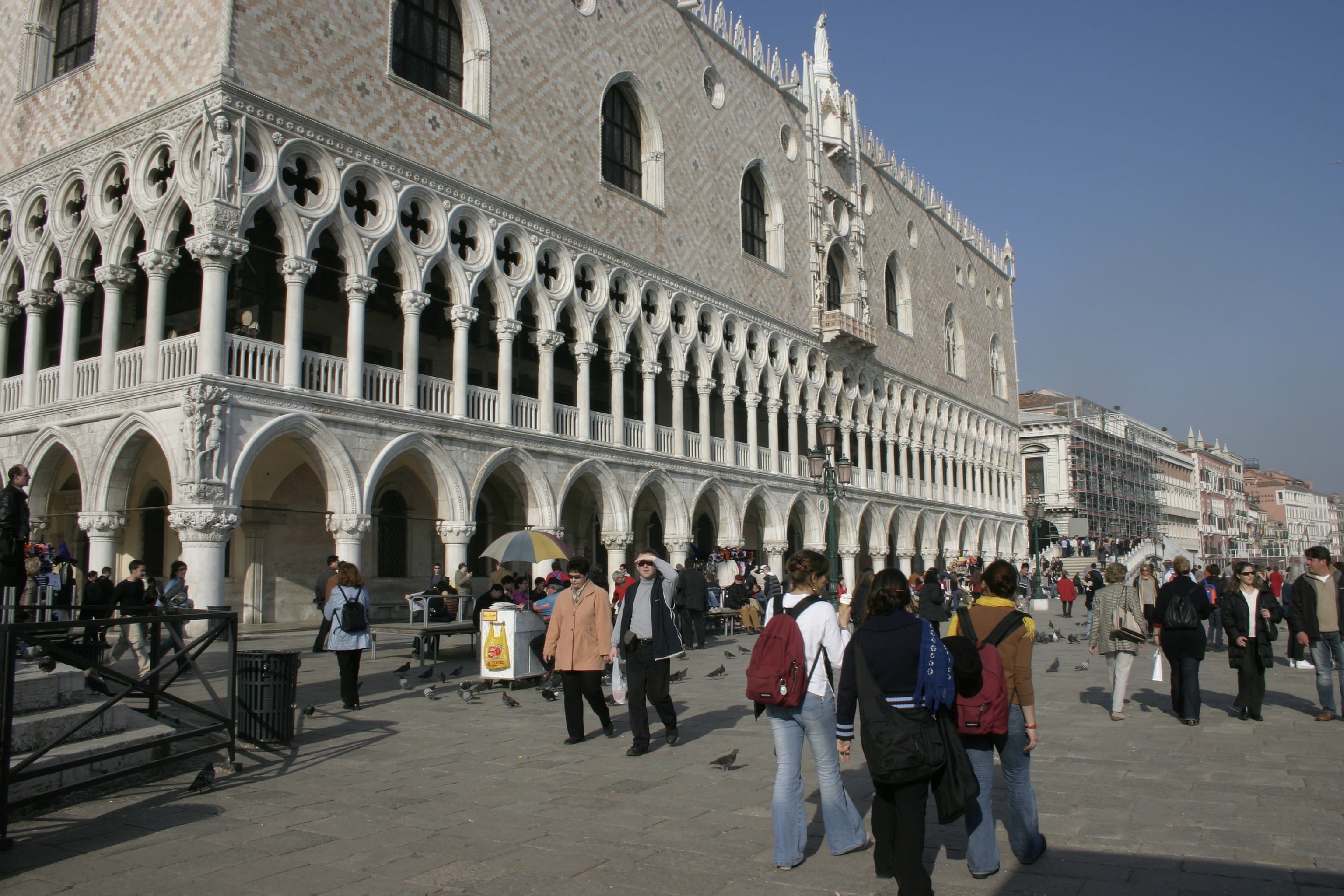 Venice – Doge’s Palace – Front on the Molo